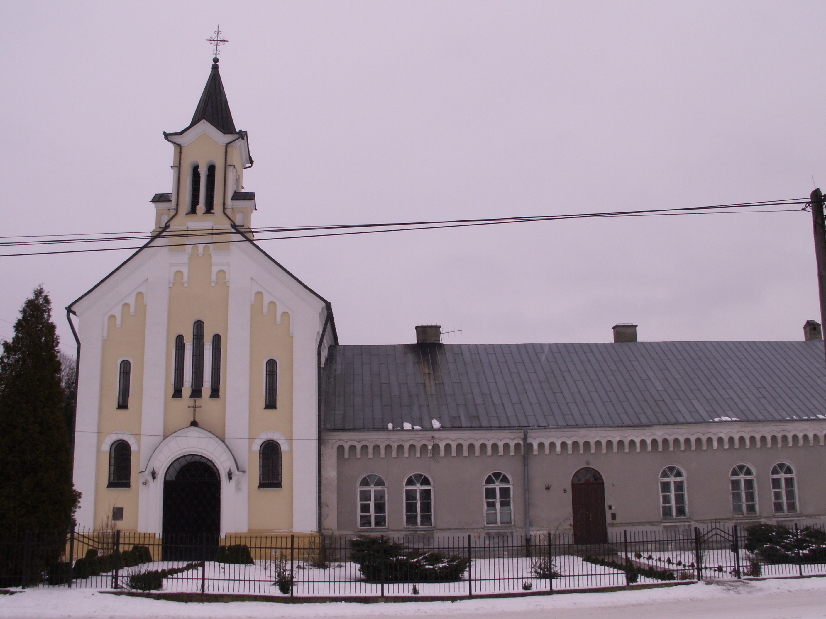 Dominican monastery in Bieliny, Poland